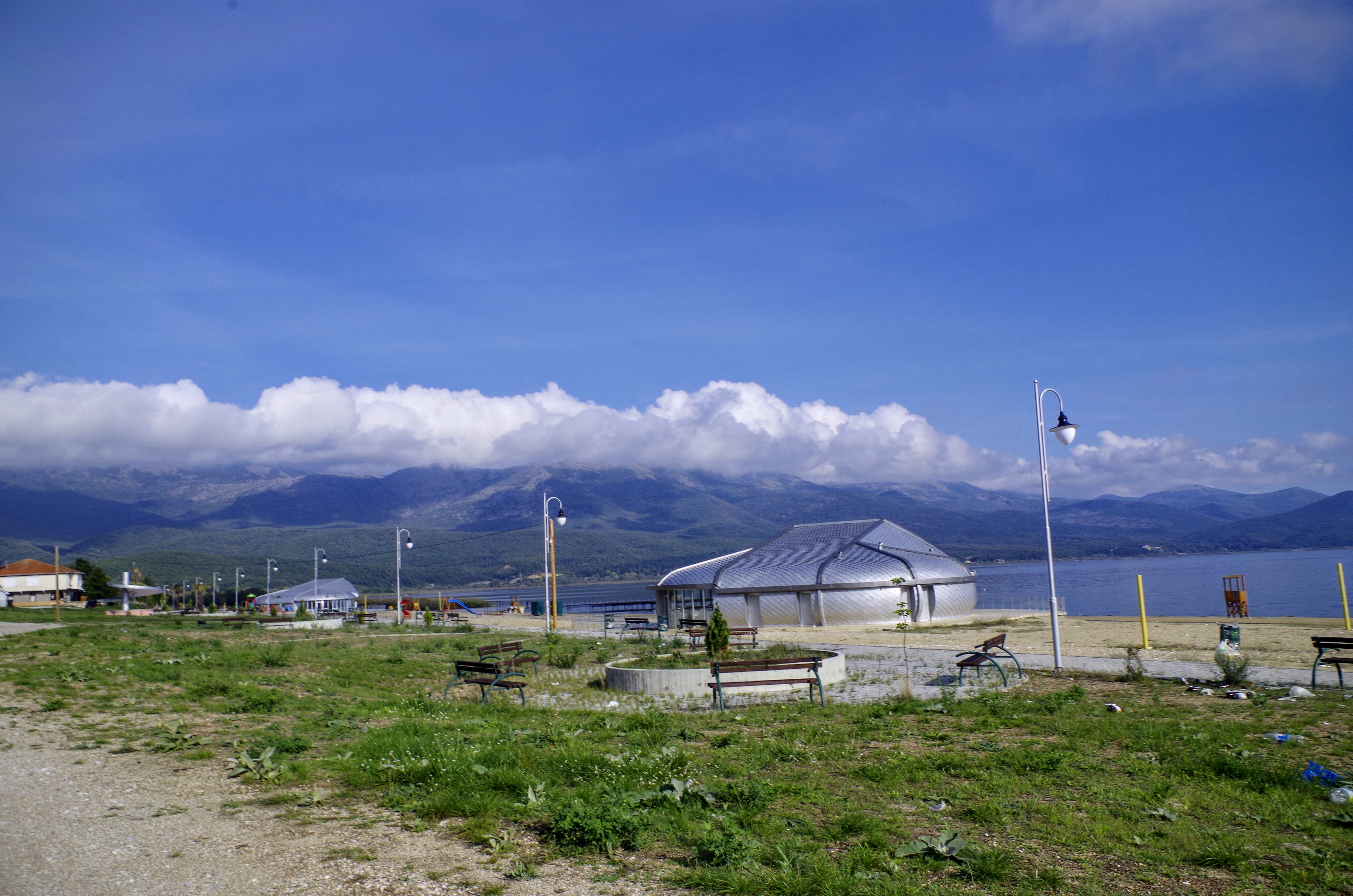 View of a beach in the village Stenje